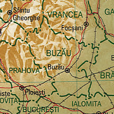 Map of Buzău County, Romania.